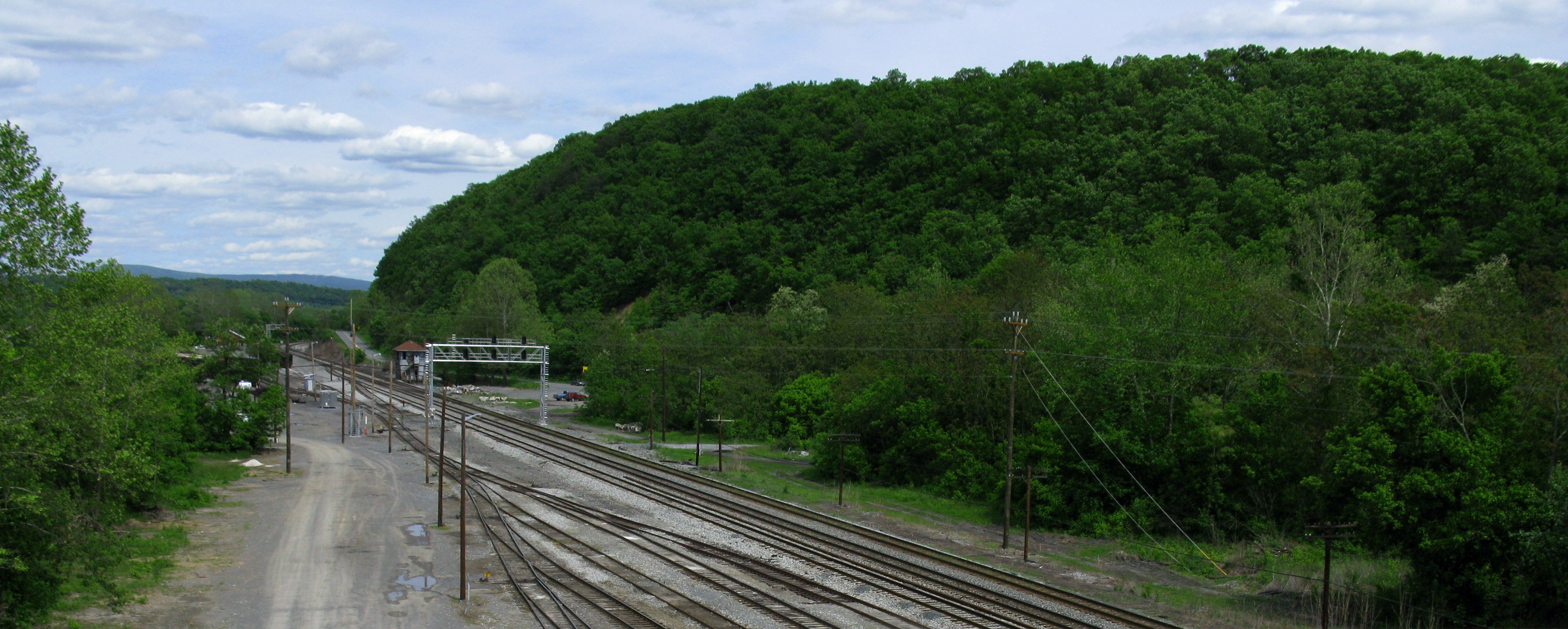 A CSX yard as viewed from U.S. Route 522, Hancock, West Virginia